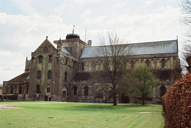 Abbey church of St. Mary & St. Ethelfleda, Romsey